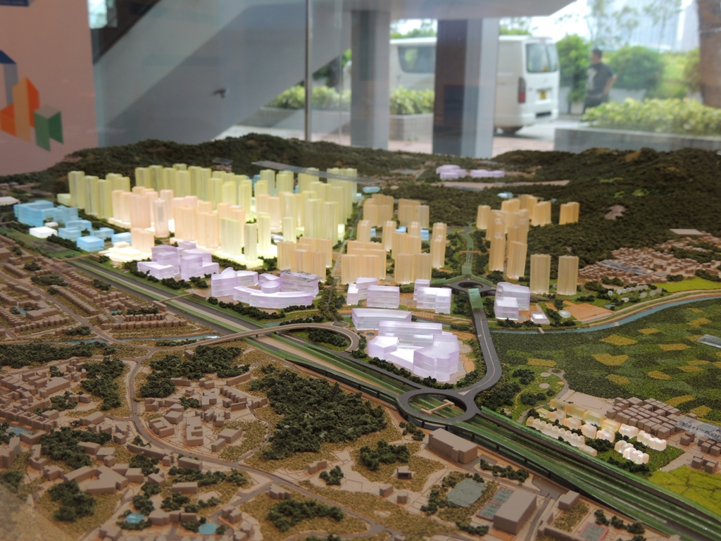 Model of the development of New Development Areas